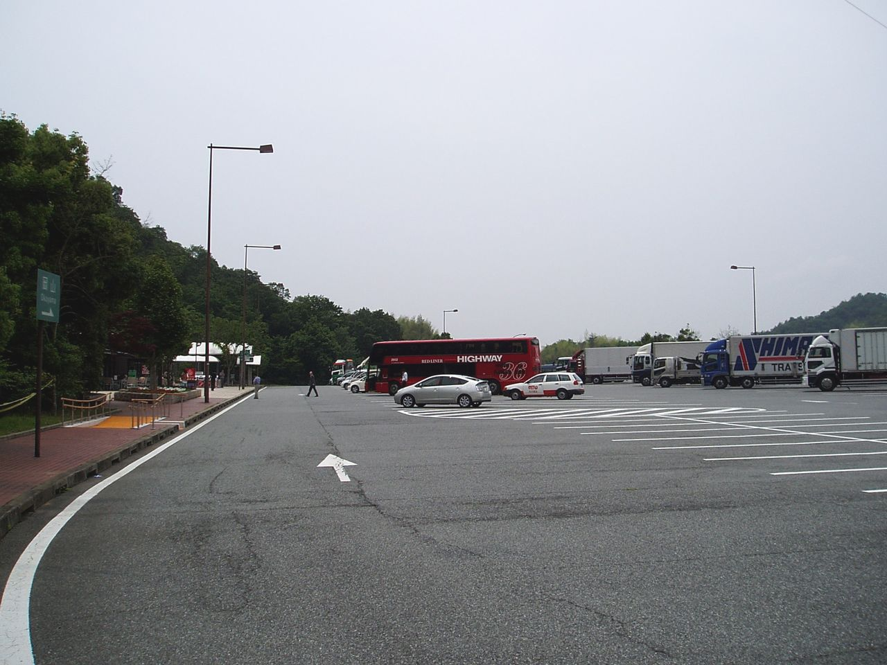 Shiratori Perking Area on the Sanyo Expressway outbound line for Yamaguchi